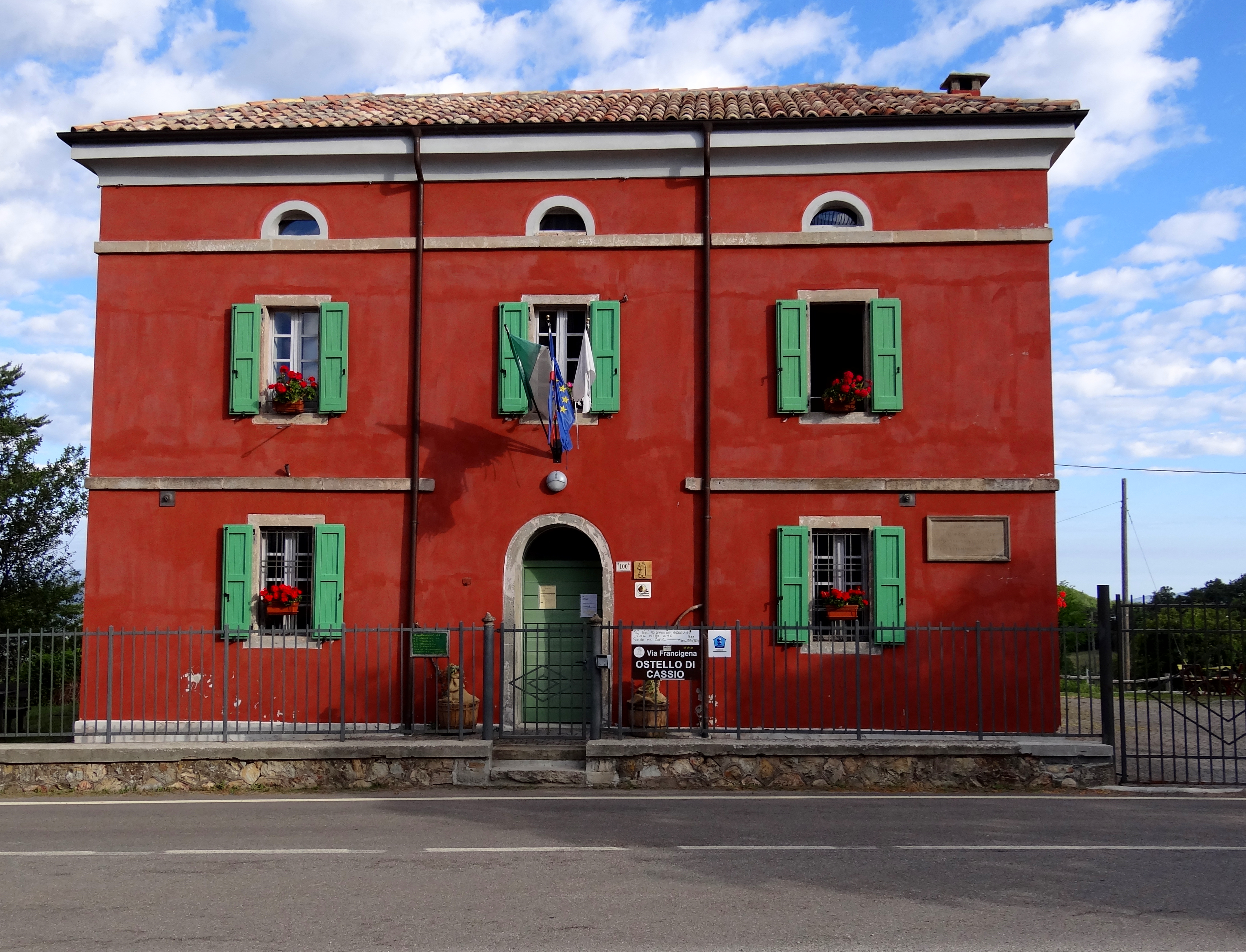 An ostello in Cassio in the region of Parma, offering lodging for pilgrims on the Via Francigena route to Rome, Italy.